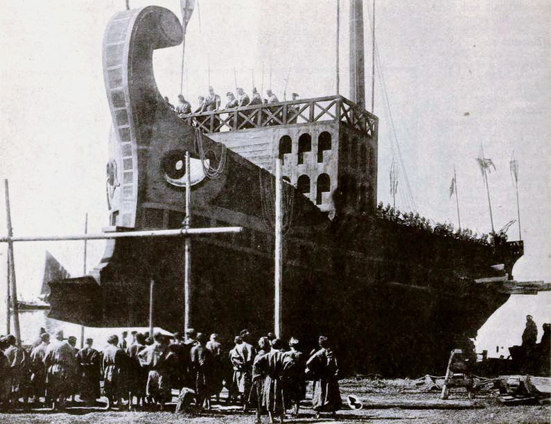 Still from the Italian film La nave (1921), released in English as The Ship, on page 22 of the January 1922 Photoplay.